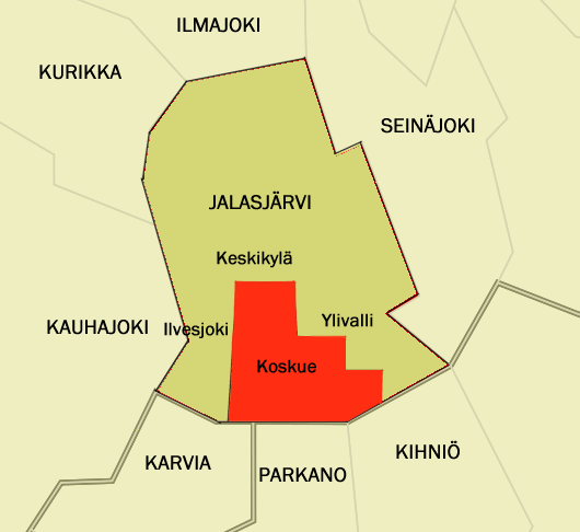 Location of Koskue village in municipality of Jalasjärvi, Finland.